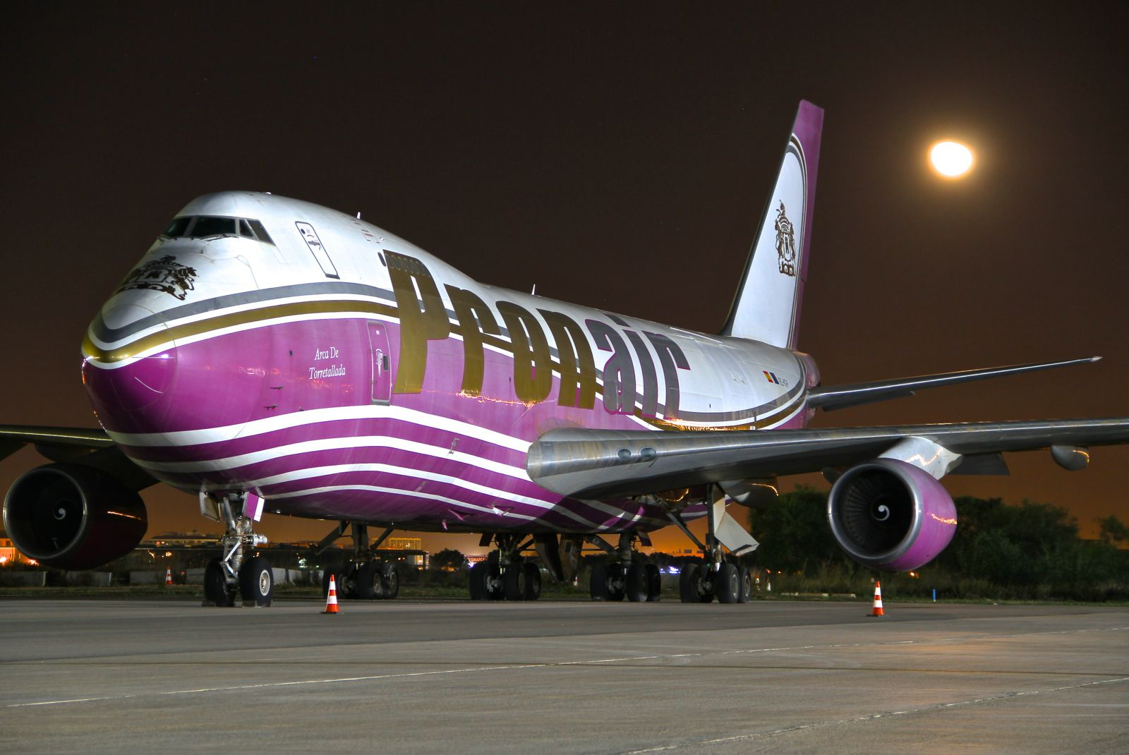 Pronair Boeing 747-200F at Valencia Airport